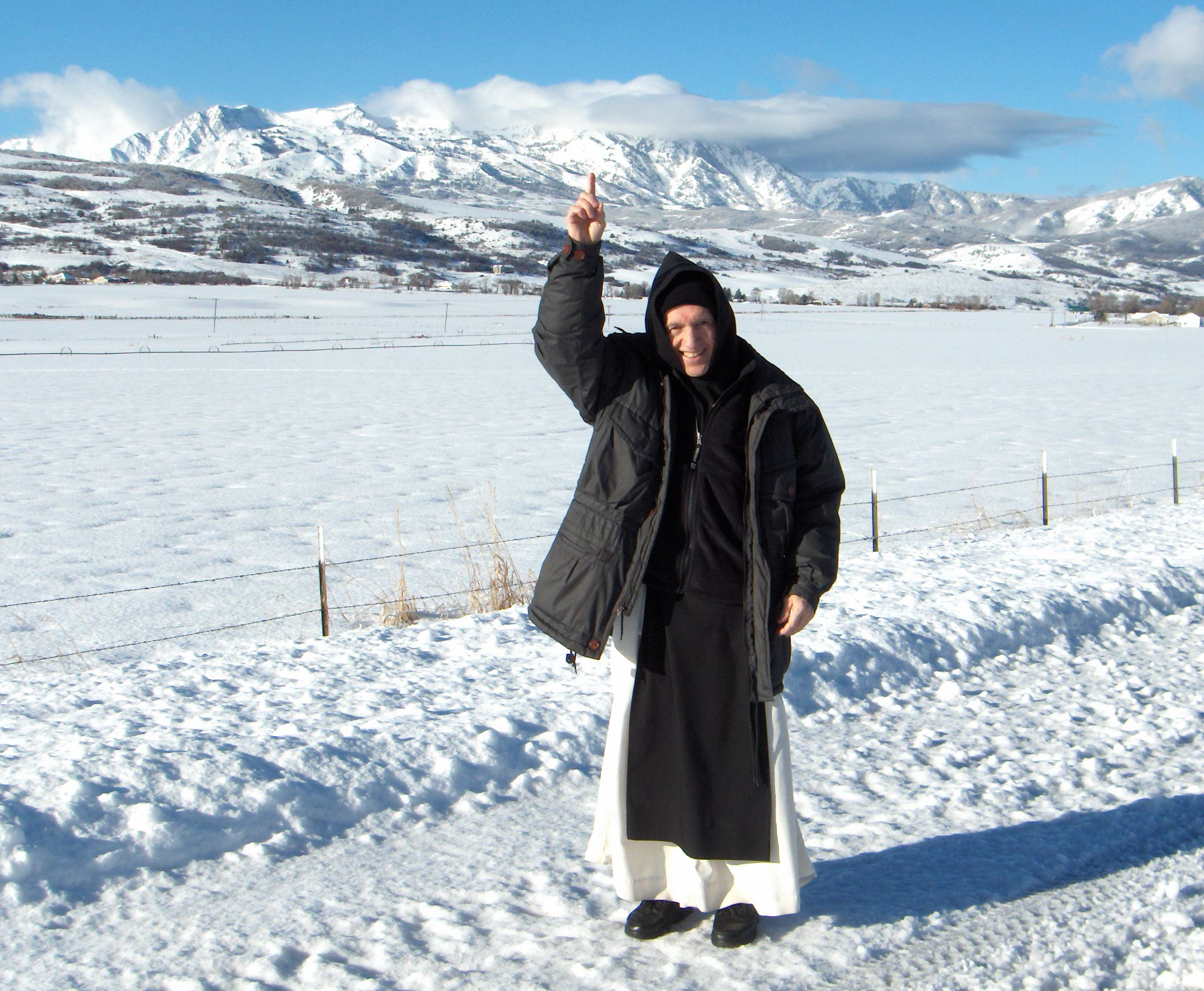 Father Patrick OCSO on the snow covered fields of the monastery pointing up to the local ski resort where some of the events of the winter 2002 Olympics were held.